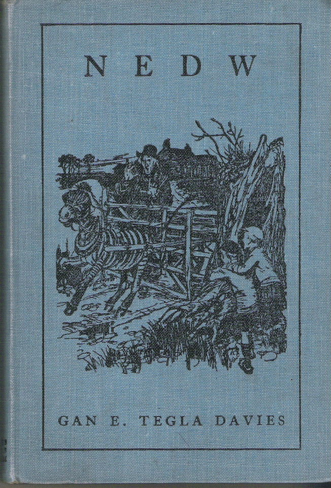 Illustrated front cover of Nedw (Hughes & Son, Wrexham, 1922), a collection of Welsh-language short stories for children by Edward Tegla Davies ("Tegla").